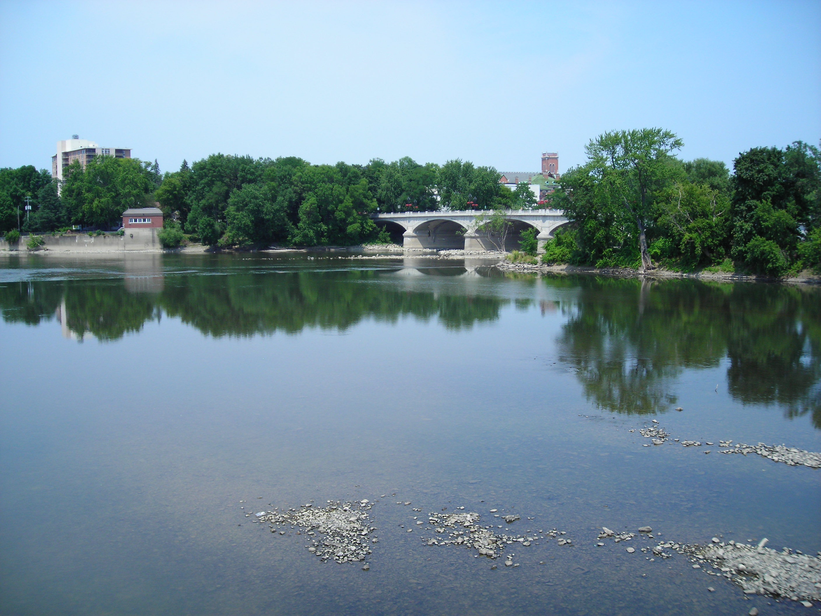 Mouth of the Chenango River at the Susquehanna River in Binghamton, New York, showing the WWI Memorial Bridge across the mouth of the Chenango.